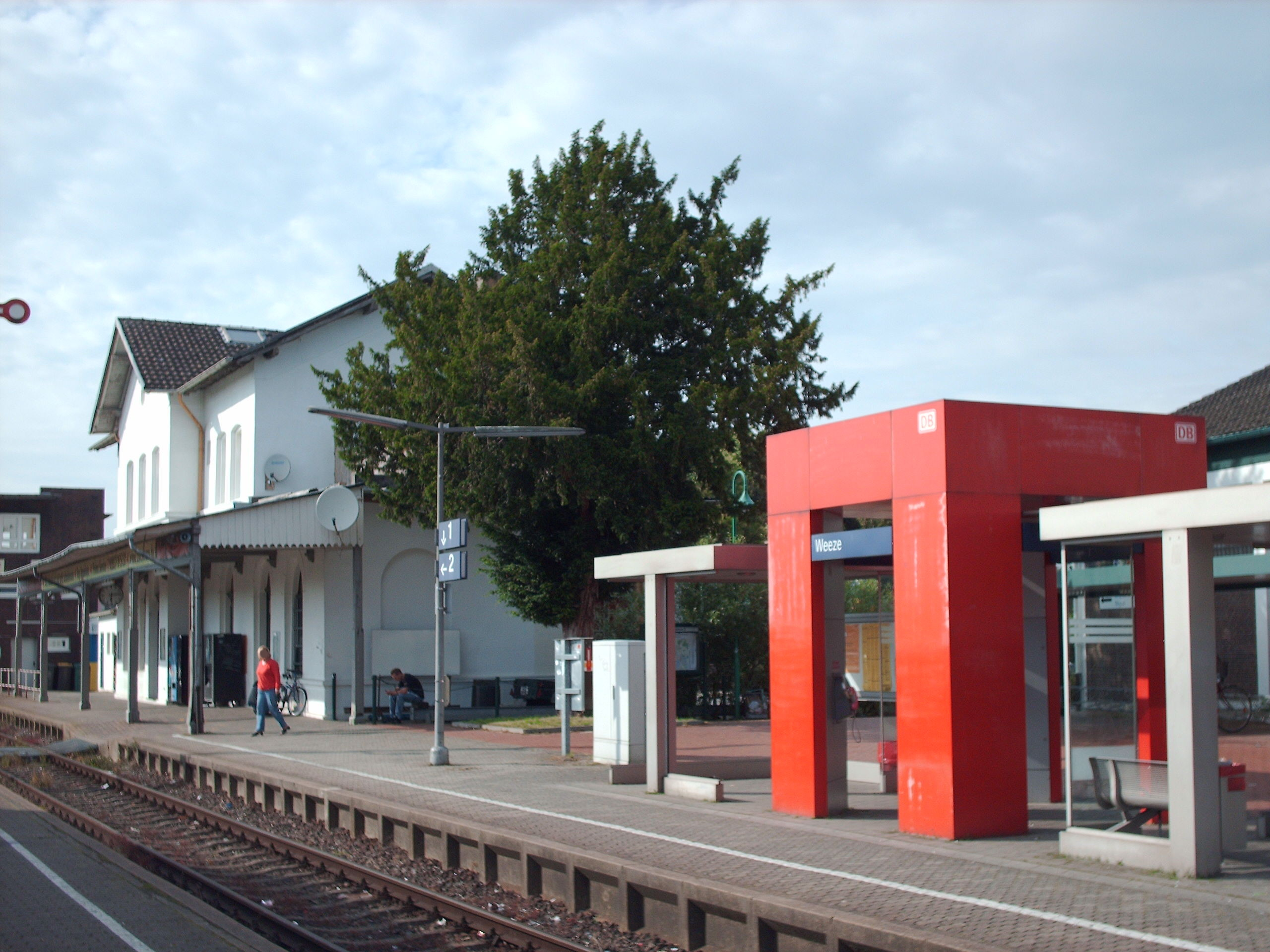 Weeze station, Weeze, Germany check usage